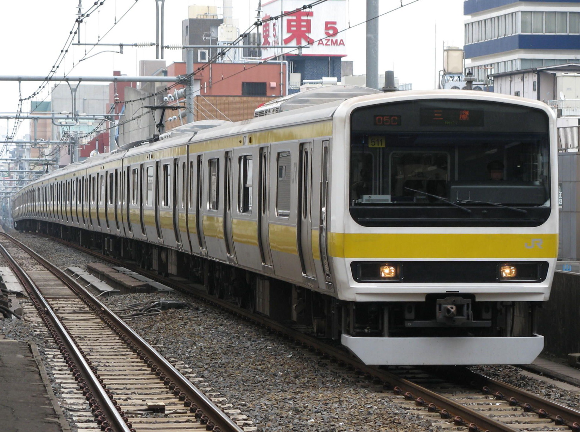 JR East 209-500 (Chuo-Sobu Line) Train Mitsu 511 (Taken at Akihabara Station)